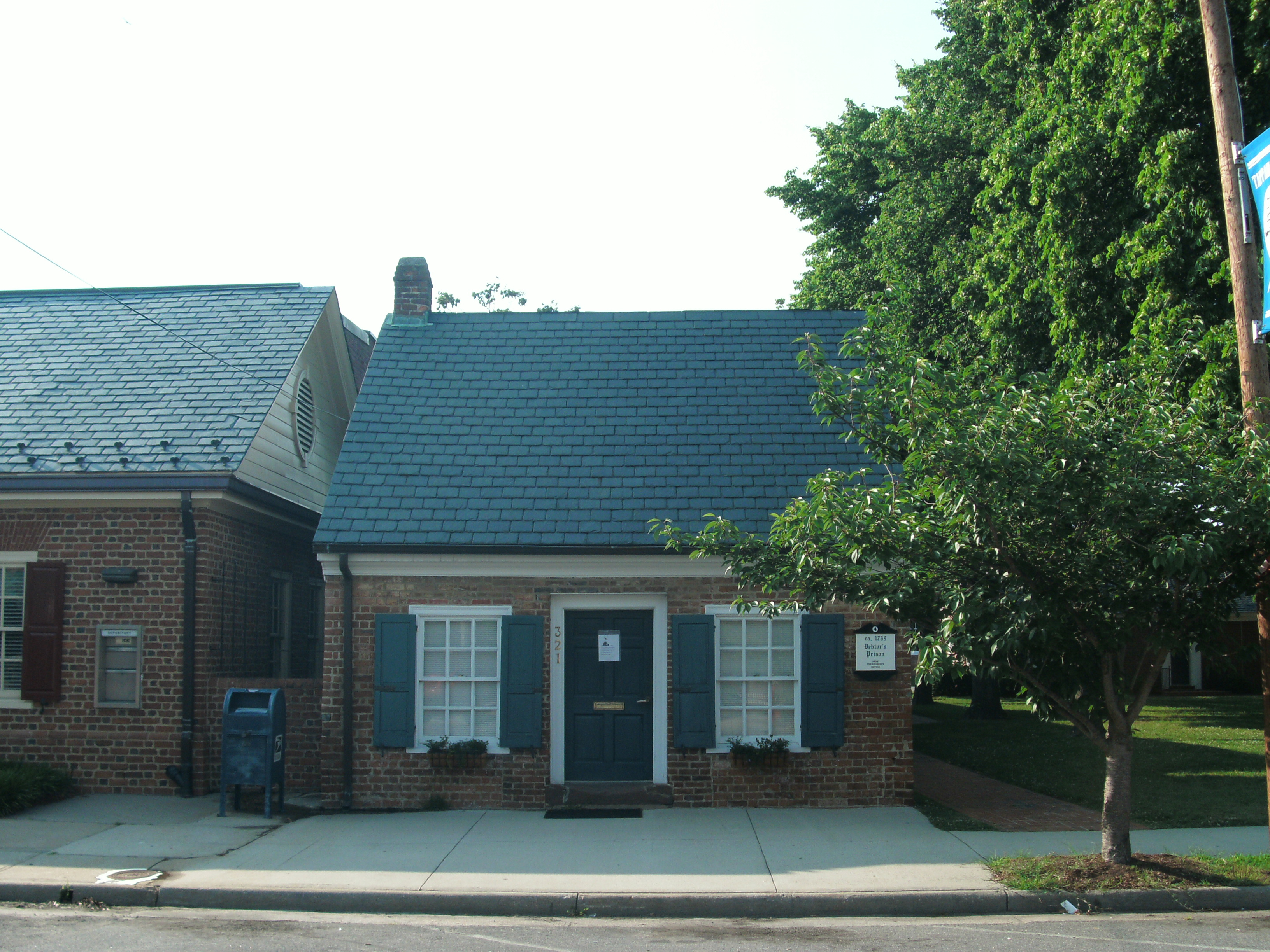 Tappahannock Historic District, Roughly bounded by Queen St., Church Lane, Rappahannock River and the grounds of St. Margaret